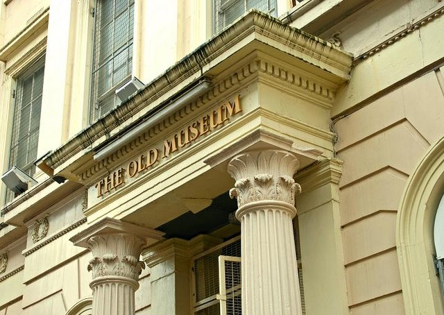 College Square North, Belfast (2). See 439170. The Old Museum Building (no 7 College Square North) was completed in 1831 to a design by Duff and Jackson. Two points of interest - (1) it was paid for by voluntary subscriptions (no lottery in those days) and (2) the architects are said to have been influenced by classical Greek architecture to the extent that this portico is reputed to be an exact copy of the octagon tower of Andronicus in Athens.